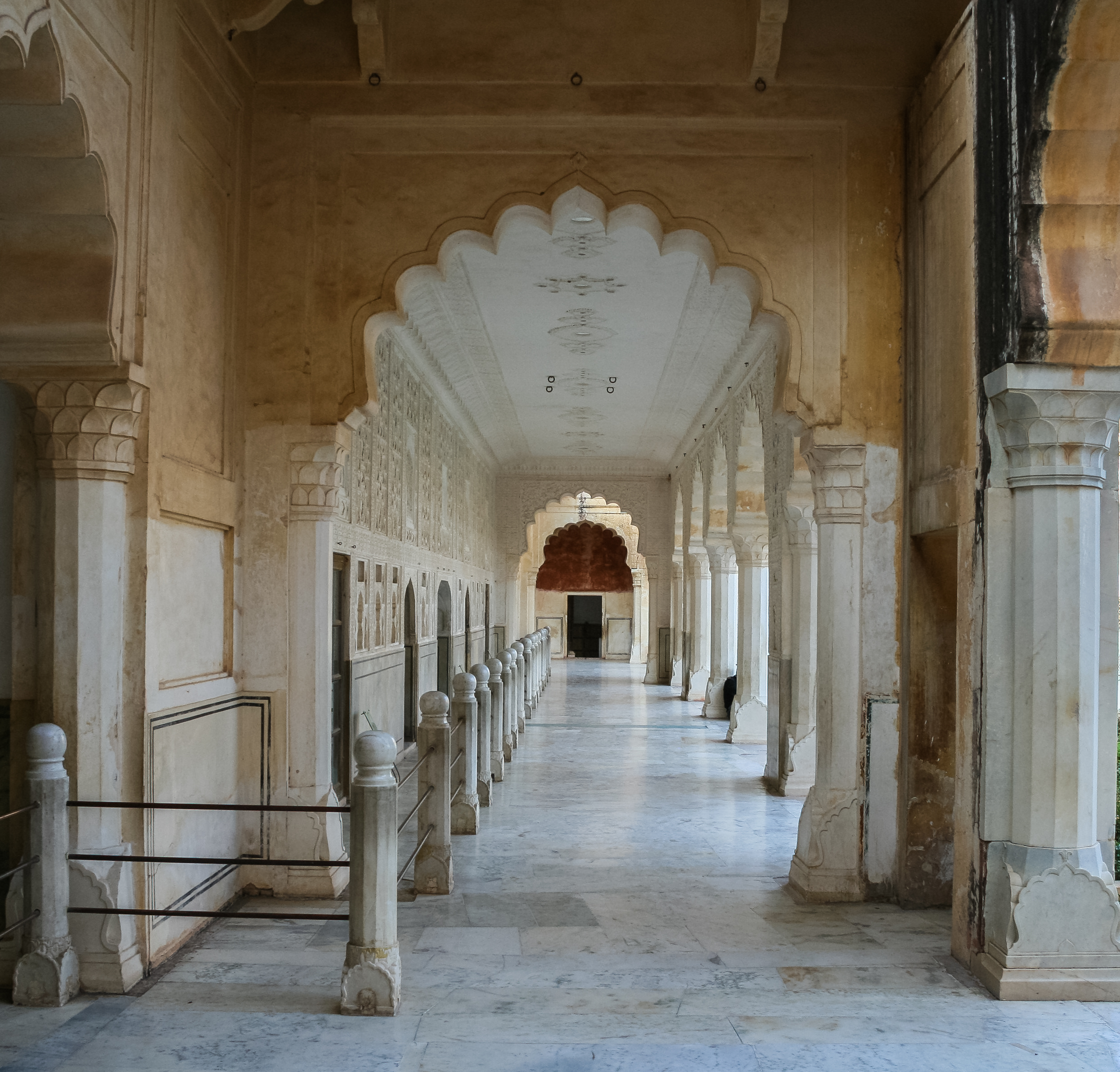 Amber Fort, Jaipur, India